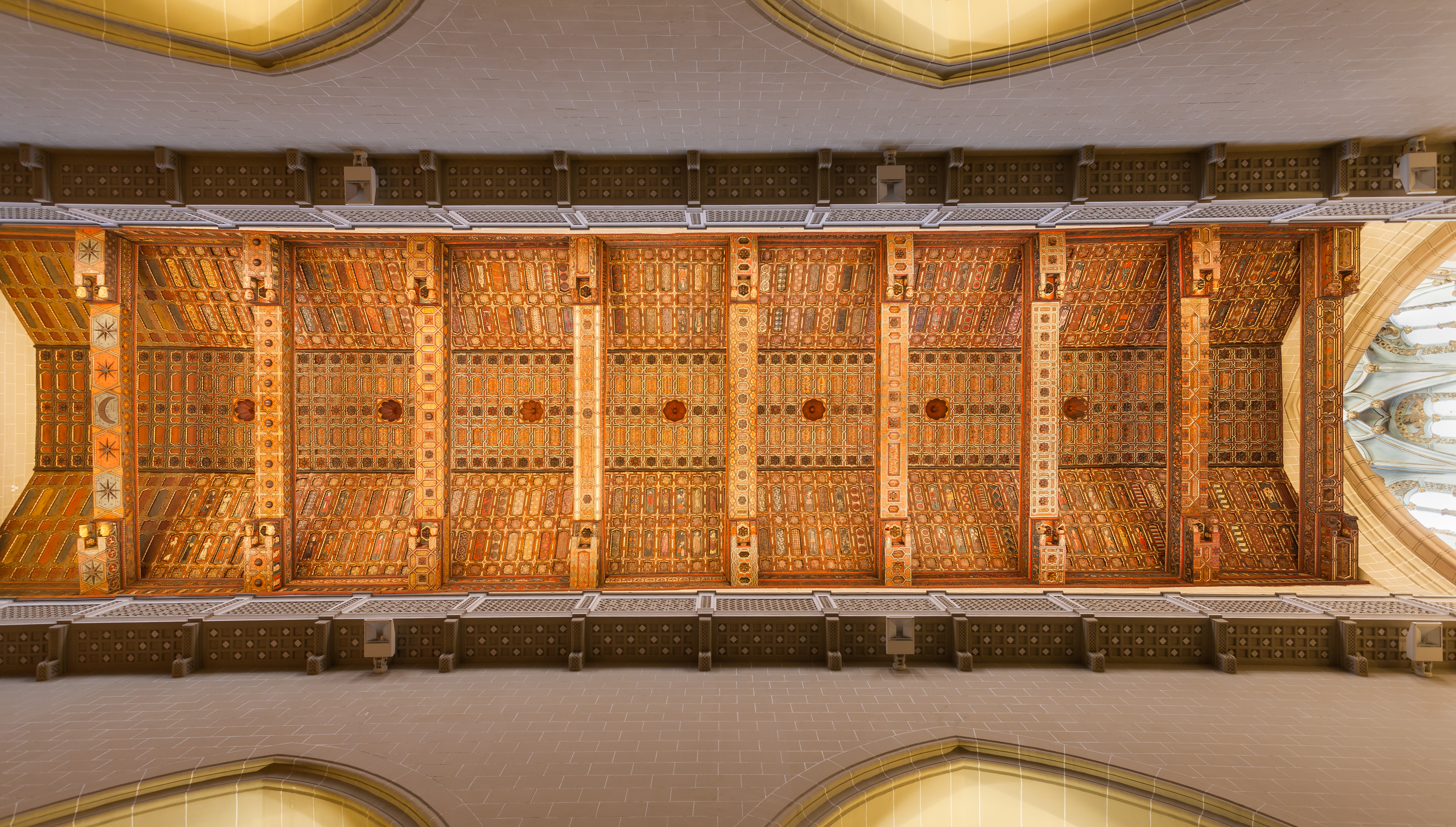 Mudéjar decorated coffer ceiling of the nave of the Teruel Cathedral, Aragon, Spain. This unique piece belongs to the UNESCO Heritage site of the Mudéjar Architecture of Aragon and dates from the 14th century. It shows historical, religious, human and animal figures in Gothic style.